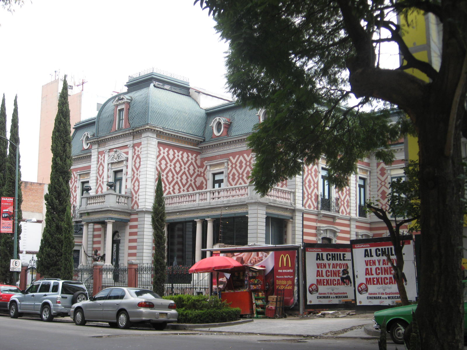 Museum of Wax in Colonia Juarez in Mexico City on Londres Street